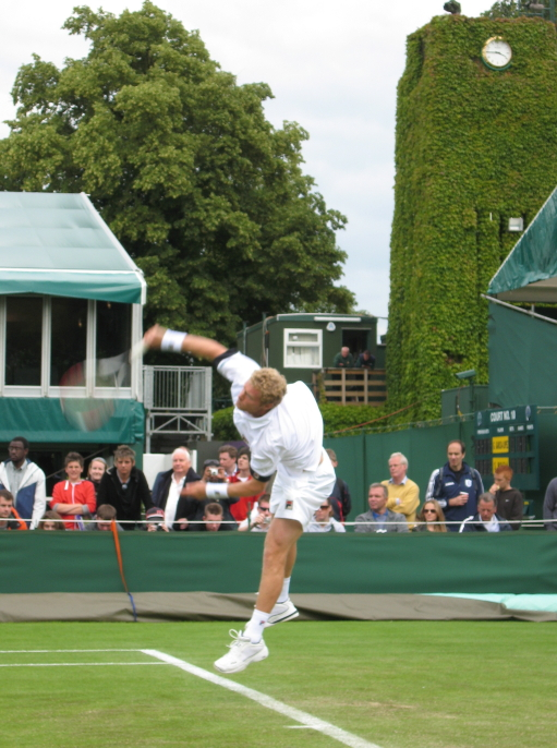 Tursunov serving at Wimbledon 07. By Chris Ng